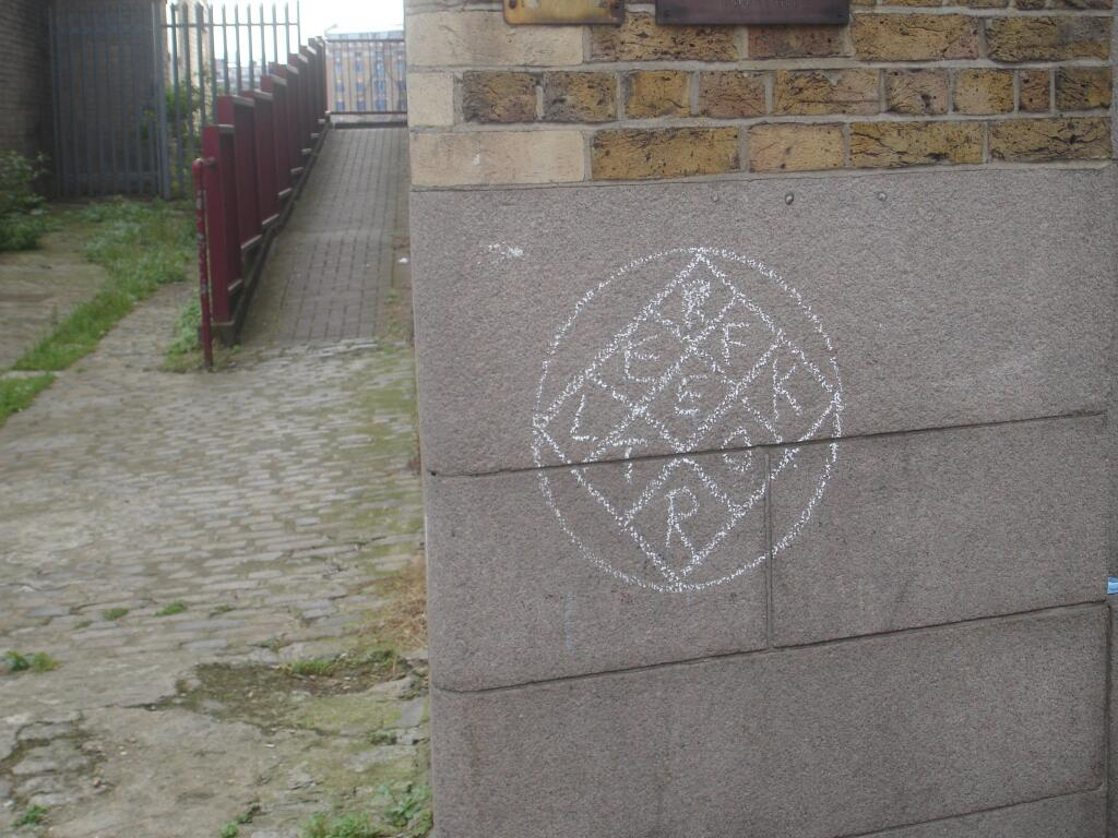 Logo written on a wall to the right of Wapping station, London, as part of the guerilla marketing campaign for the Arcade Fire album "Reflektor".